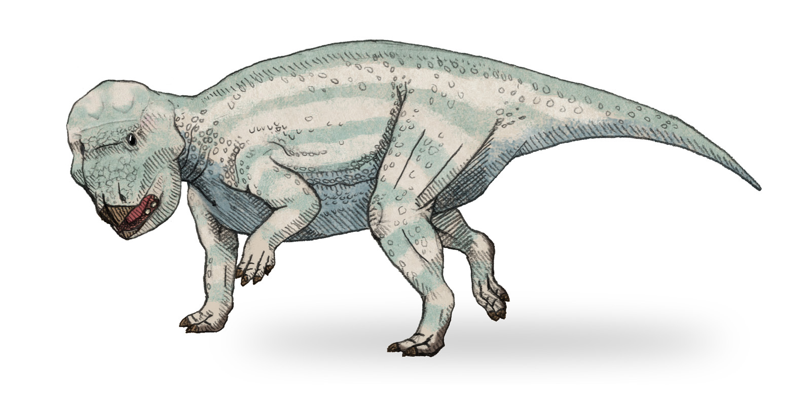 image by me user debivort, 12.06 Category:Approved dinosaur images